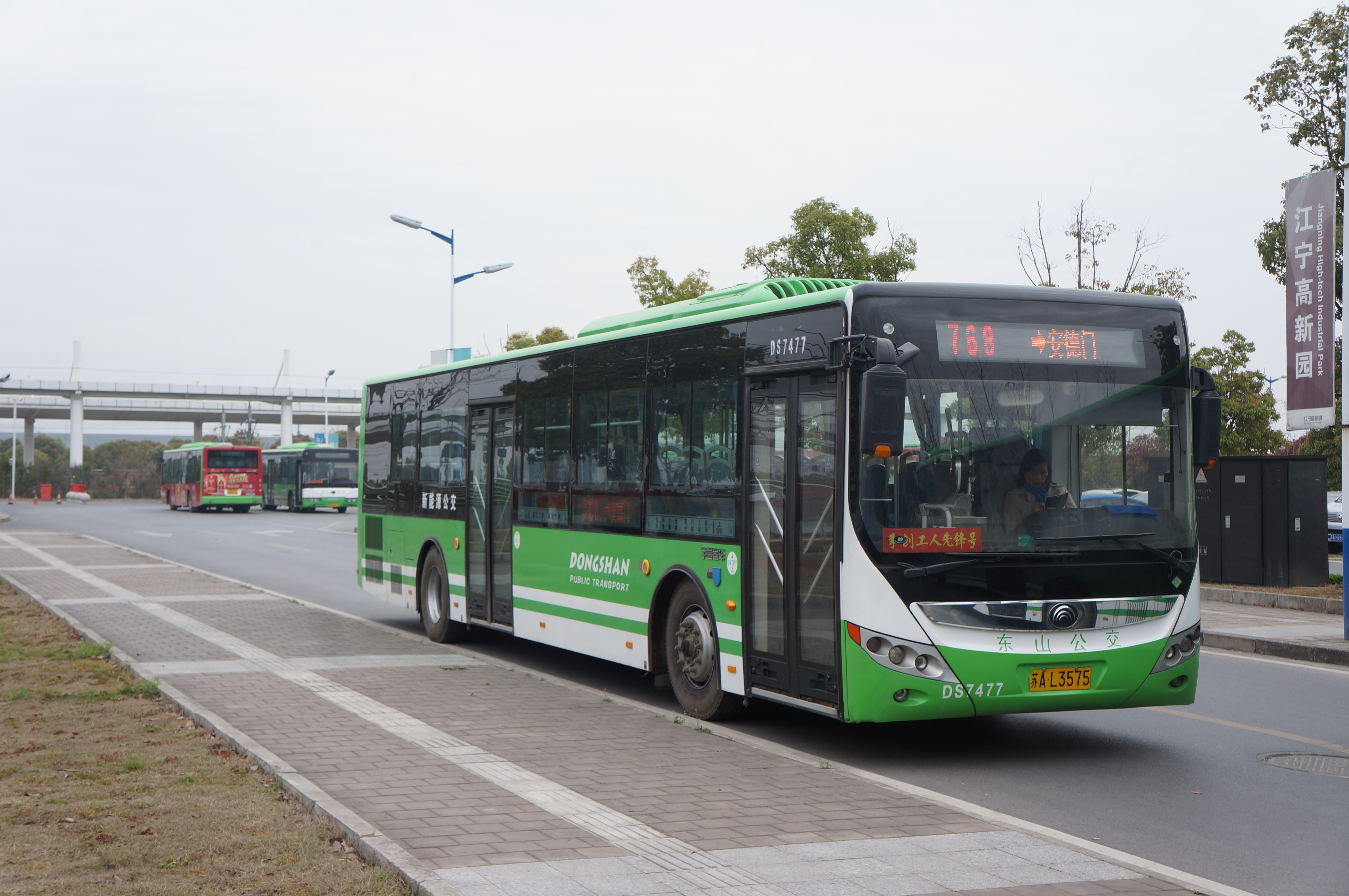 201704 DS7477 at Jiangning Station